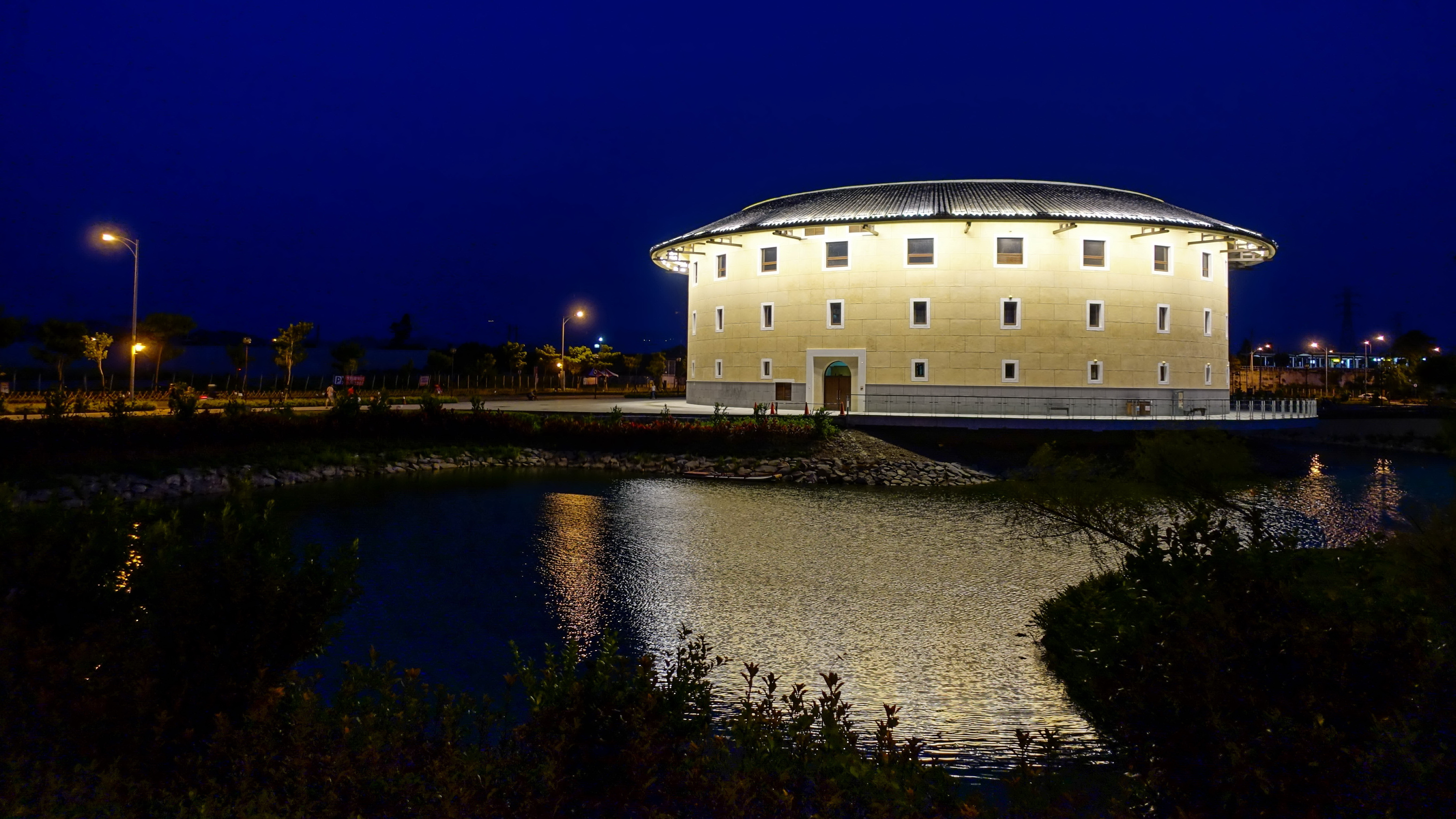 Hakka Round House, Houlong Township, Miaoli County, Taiwan.